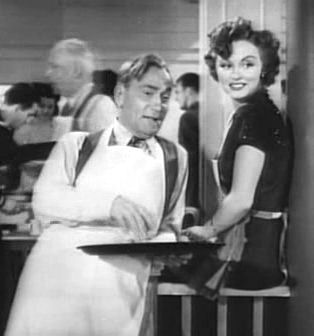 Cropped screenshot of William Demarest and Cheryl Walker from the film Stage Door Canteen.